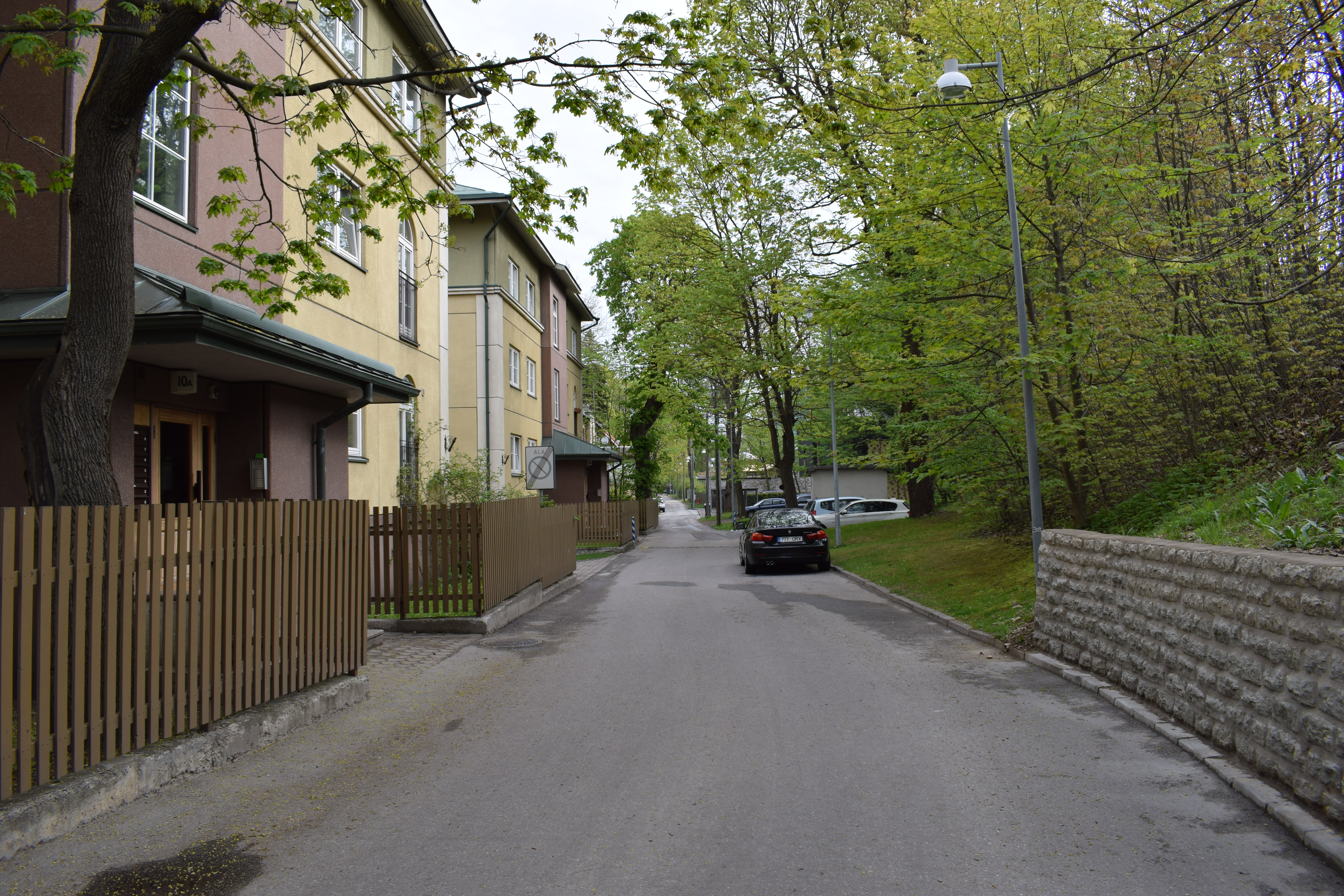 Mäekalda street